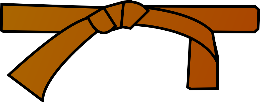 brown belt (Judo belt, Obi, Budo belt, etc.)